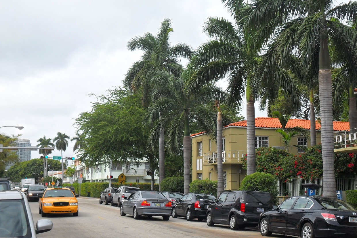 Streetscape, Miami Beach, Florida